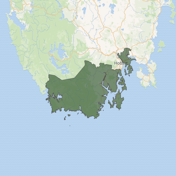 Electoral boundaries from Administrative Boundaries [May 2016] ©PSMA Australia Limited licensed by the Commonwealth of Australia under Creative Commons Attribution 4.0 International licence (CC BY 4.0): Background map layer and image thumbnail generated by Wikimedia maps; Creative Commons Attribution-ShareAlike 4.0 International licence (CC BY-SA 4.0).